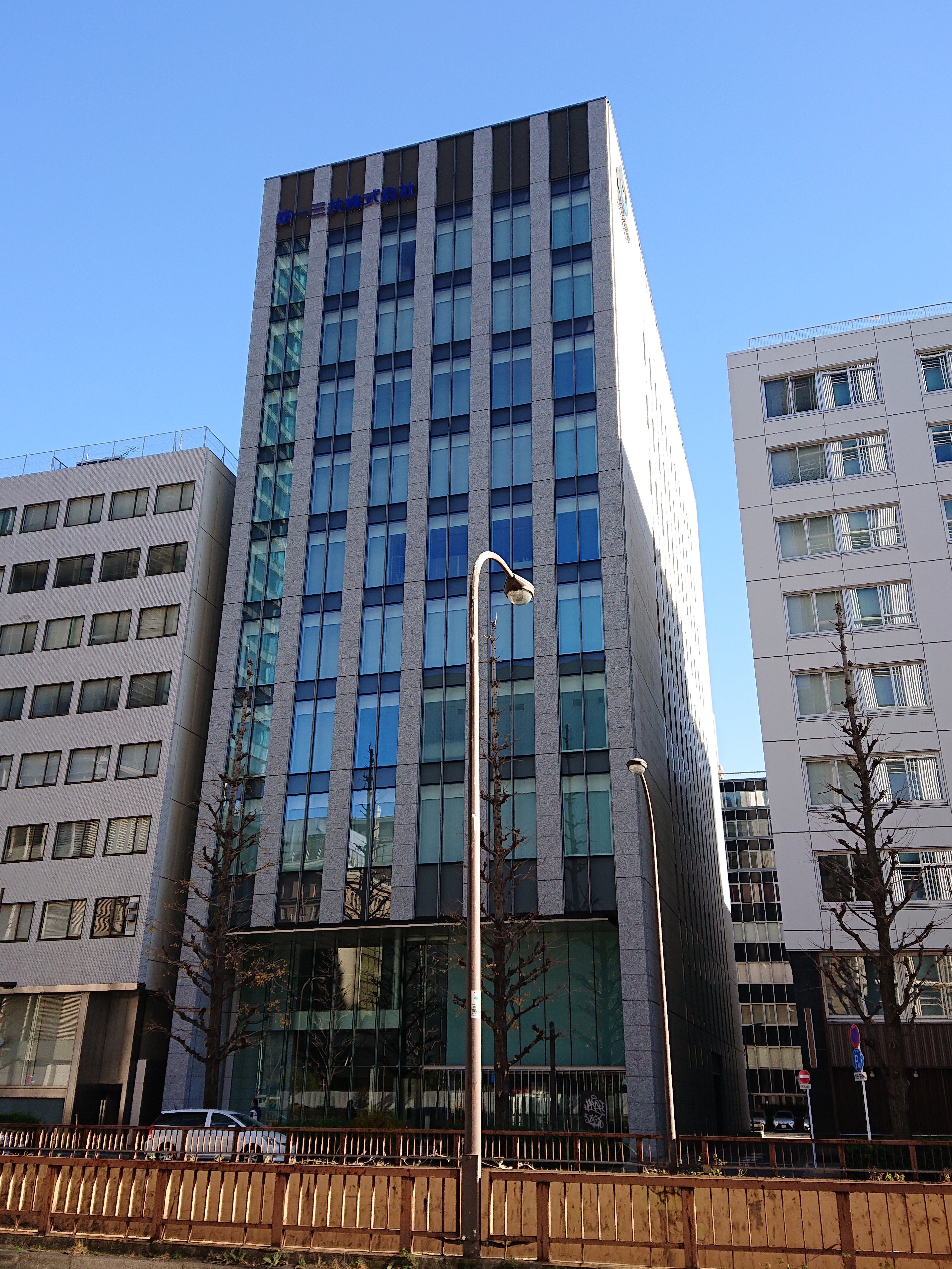 Daiichi Sankyo Nihonbashi Building (第一三共日本橋ビル), located at 3-14-10 Nihonbashi, Chuo, Tokyo, Japan